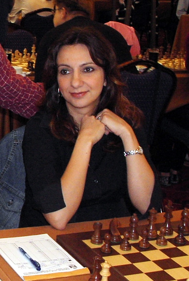 WGM Anna-Maria Botsar Greece, EuroChess Iraklion 2007